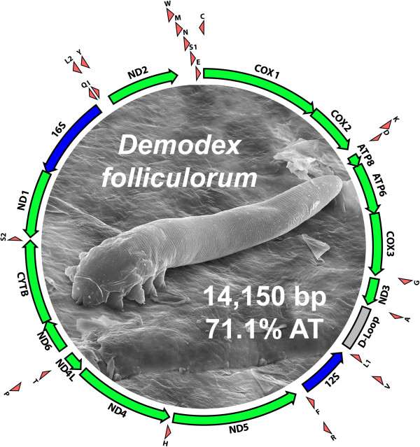 Caption from the original paper: Organization of the mitochondrial genome of Demodex folliculorum. Protein-coding, ribosomal RNA, and transfer RNA genes are depicted as green, blue, and red arrows, respectively. The arrows represent the direction of transcription. The AT-rich, putative control region is depicted as a gray box (labeled “D-Loop”). Inside the circle is a scanning electron micrograph of an individual D. folliculorum (image credit: Power and Syred). The identical gene arrangement was observed in the D. brevis mitochondrial genome. This is a novel gene arrangement among the acariform mitochondrial genomes sequenced to date. Like other members of the Acariformes, Demodex proved to have a compact and AT-rich mitochondrial genome.